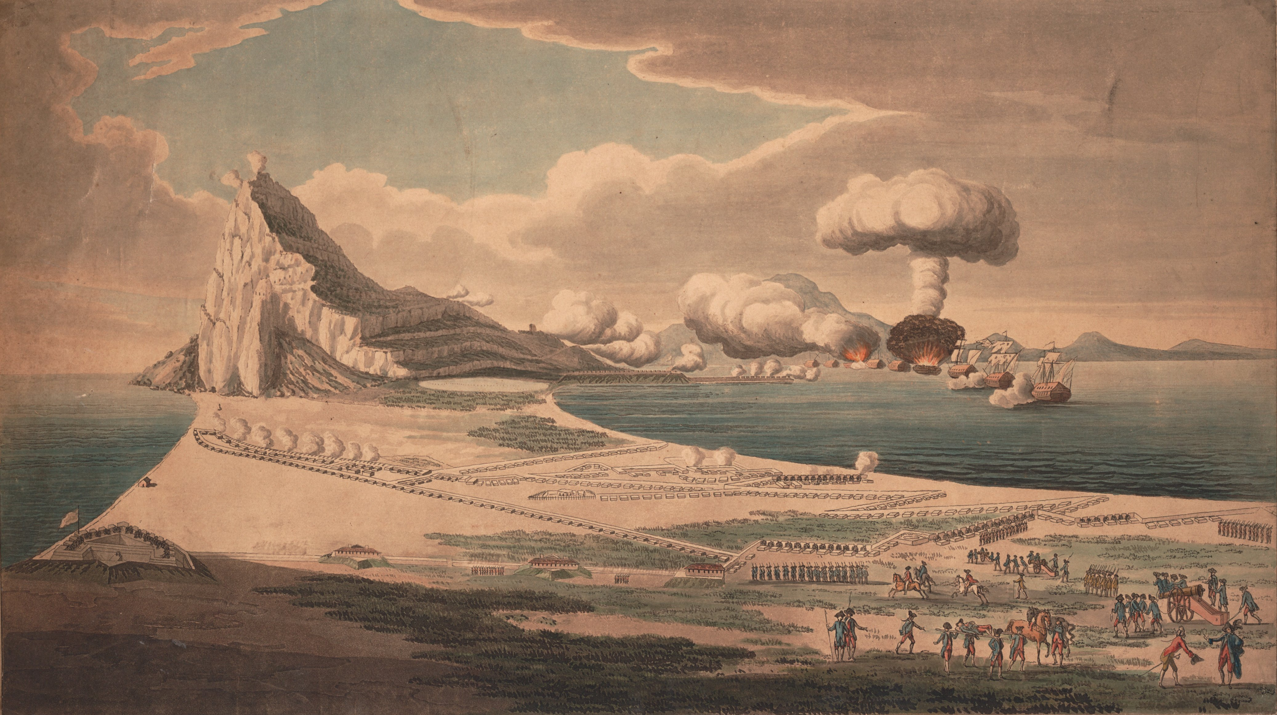 Panorama of naval attack on fortified Gibraltar by French and Spanish warships, showing 1 ship exploding, small figures of infantry and artillery on land in right foreground.